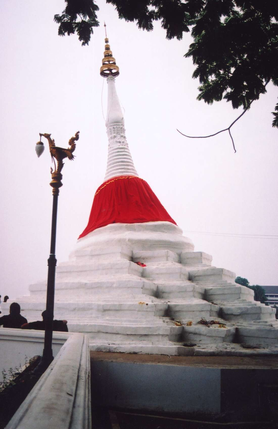 The leaning chedi of Ko Kret, Nonthaburi province, Thailand. The chedi is located at the north-eastern corner of the island, and is the icon of Ko Kret. Photo taken by User:Ahoerstemeier on January 16 2005.